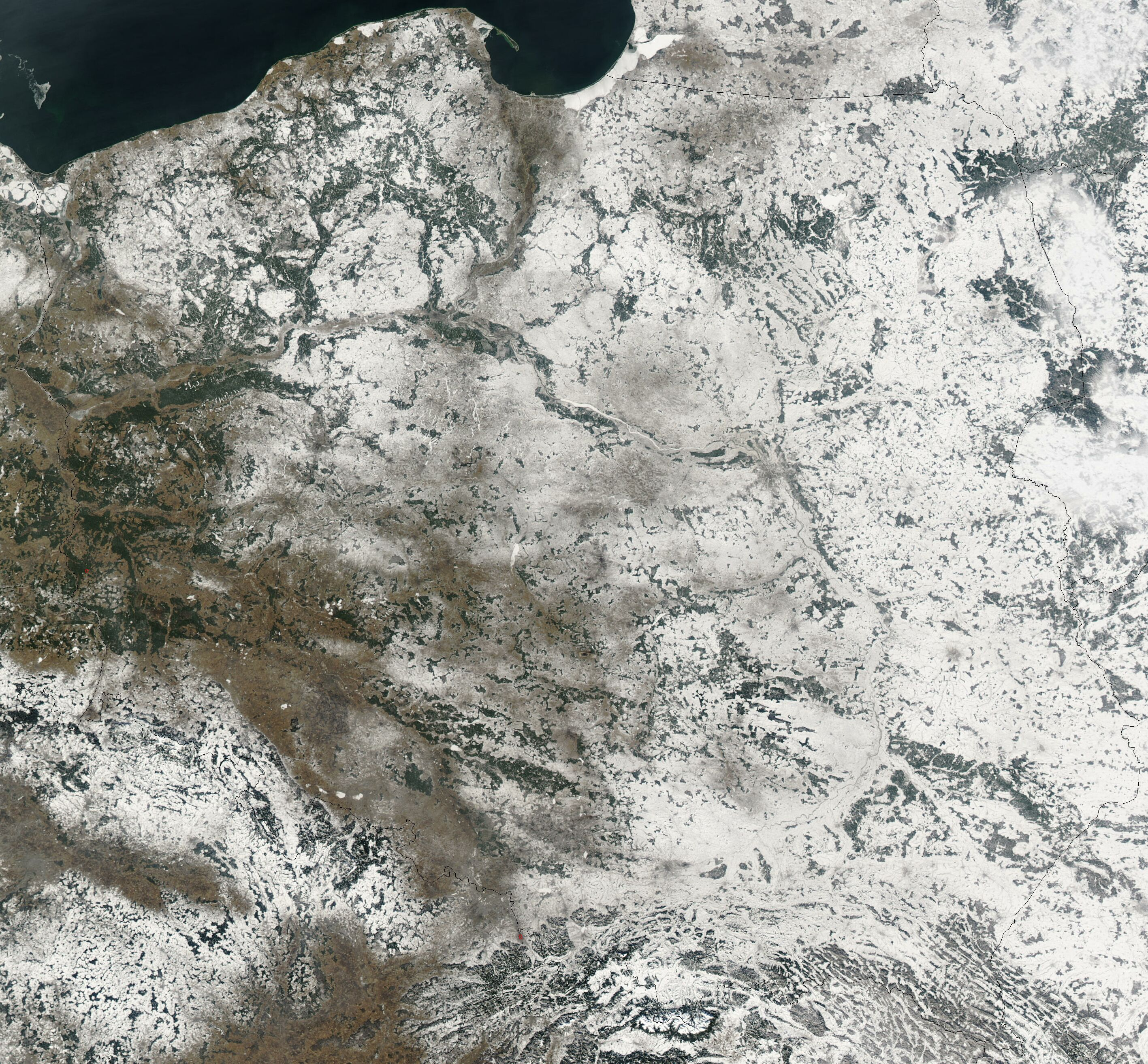 Satellite image of Poland in February 2003.